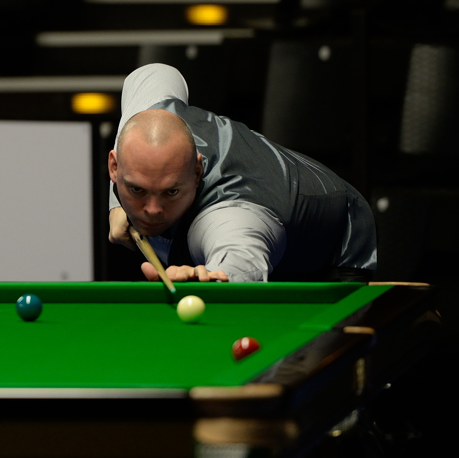 Picture taken in Berlin during the Snooker German Masters in 2015. Stuart Bingham.